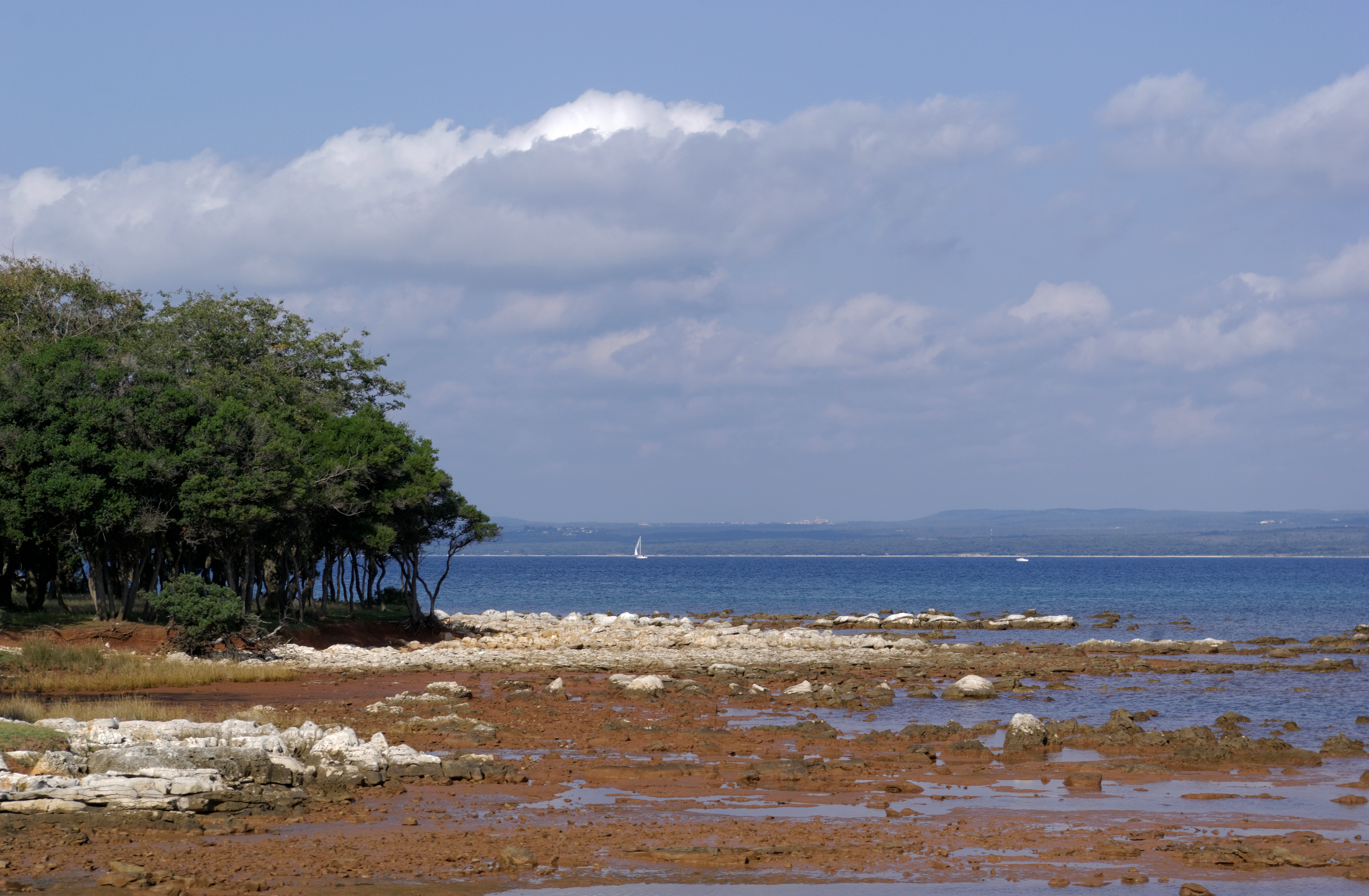 Croatia, Brijuni, north coast